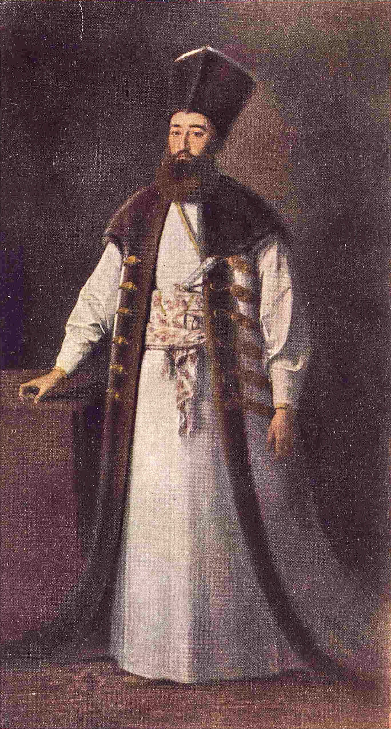 Nicolae Grigorescu - Portrait of Grigore IV Ghica, ruler of Wallachia